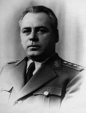 Vsevolod Nikolaevich Merkulov